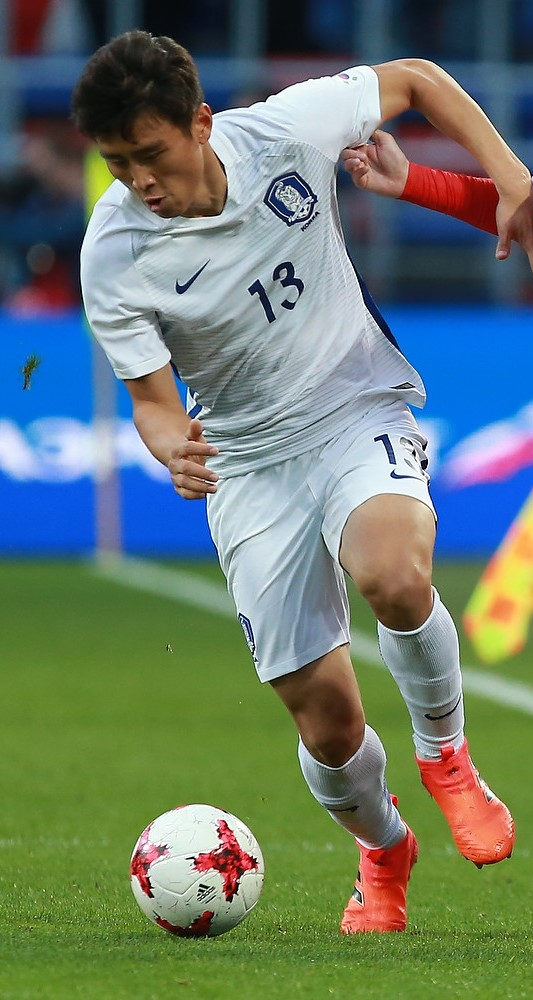 Koo Ja-cheol, Anton Miranchuk